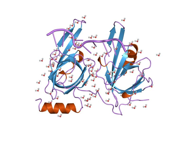 Cartoon representation of the molecular structure of protein registered with 1jmc code.